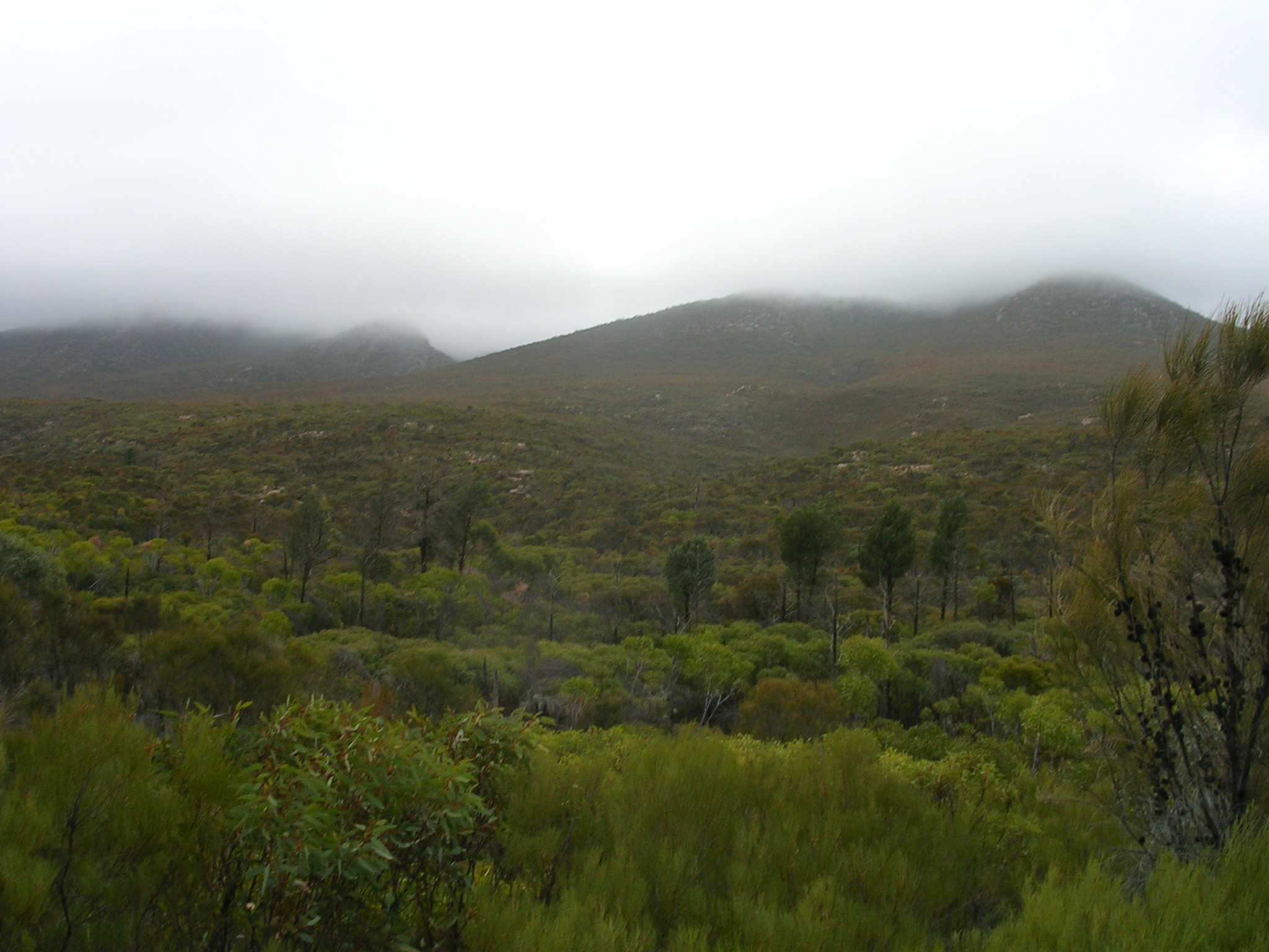 Pic of inside Wilpena Pound. Original artwork from 2005